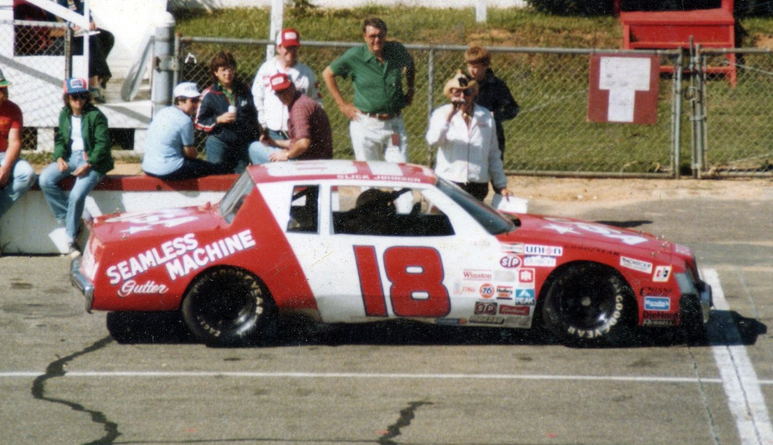 NASCAR driver Slick Johnson ran this #18 in the Like Cola 500 in 1983 at Pocono.